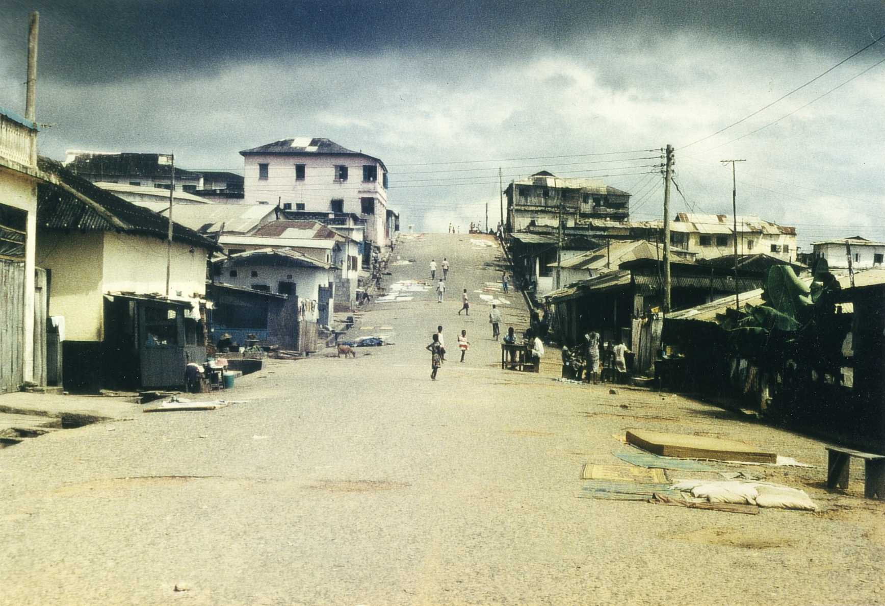 A street in the town of Sekondi-Takoradi, population 335,000, the capital of the Western Region of Ghana. It is Ghana's third largest city and an industrial and commercial center.